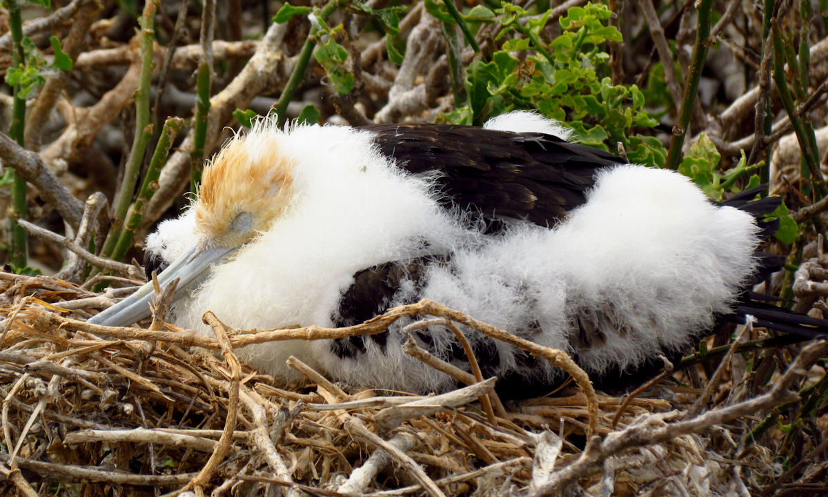 Great Frigatebird (Fregata minor), chick in nest, Genovesa Island, Galapagos, Ecuador